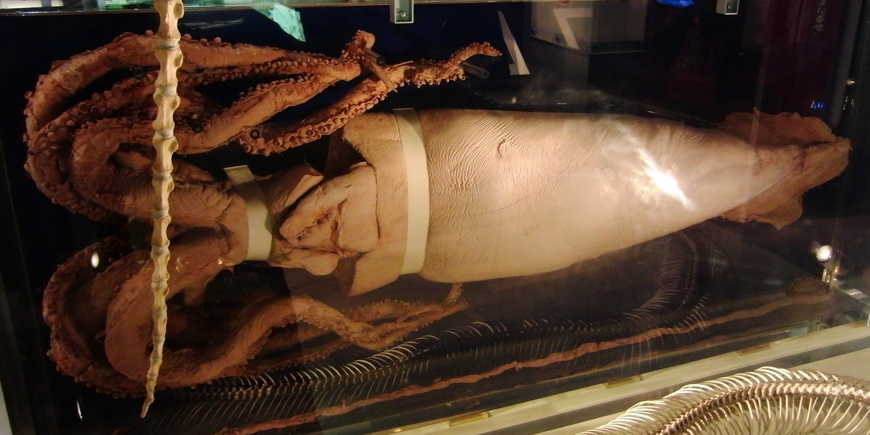 Specimen of Giant squid (Architeuthis japonica), launched by the seashore in Tottori Prefecture on December 24, 1996. Exhibit in the National Museum of Nature and Science, Tokyo, Japan.